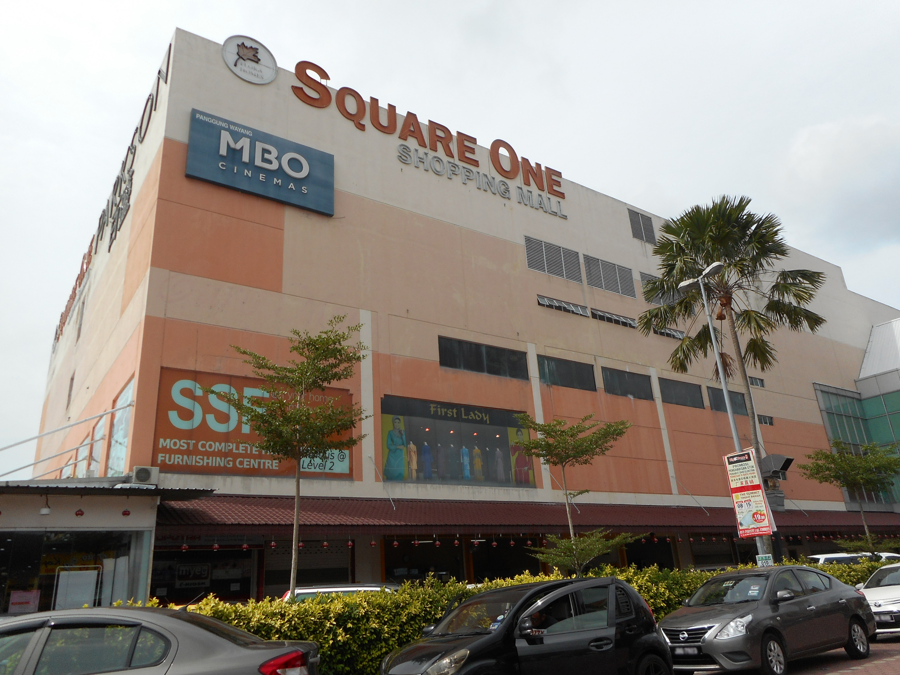 Square One Shopping Mall, Taman Flora Utama, Batu Pahat, Johor, Malaysia